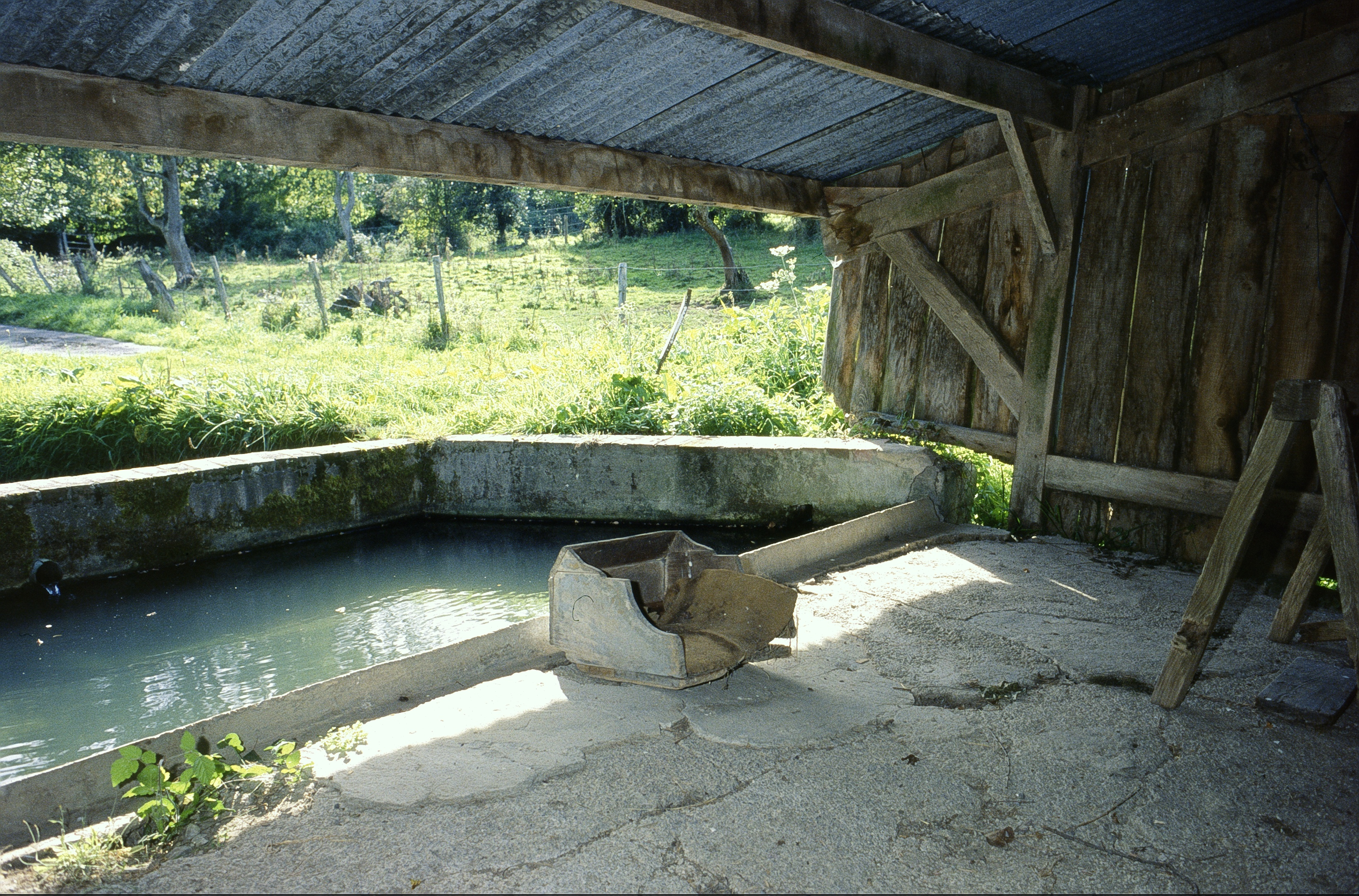 The wash house of hamlet "La Vieville" on country village Le Mesnil Hermei